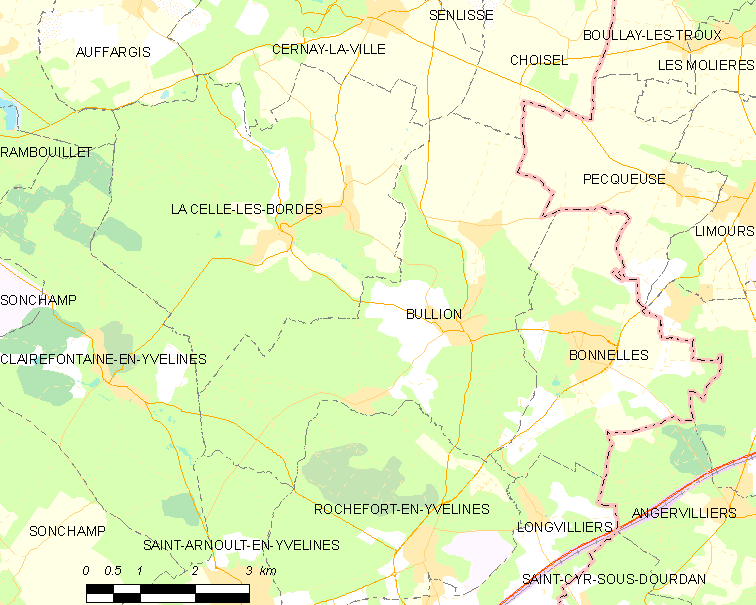 Map of French municipality Bullion